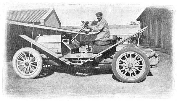 1907 Itala motor car - Project Gutenberg etext 17432